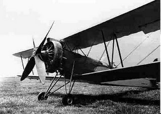 Italian Caproni Ca.161 high-altitude aircraft